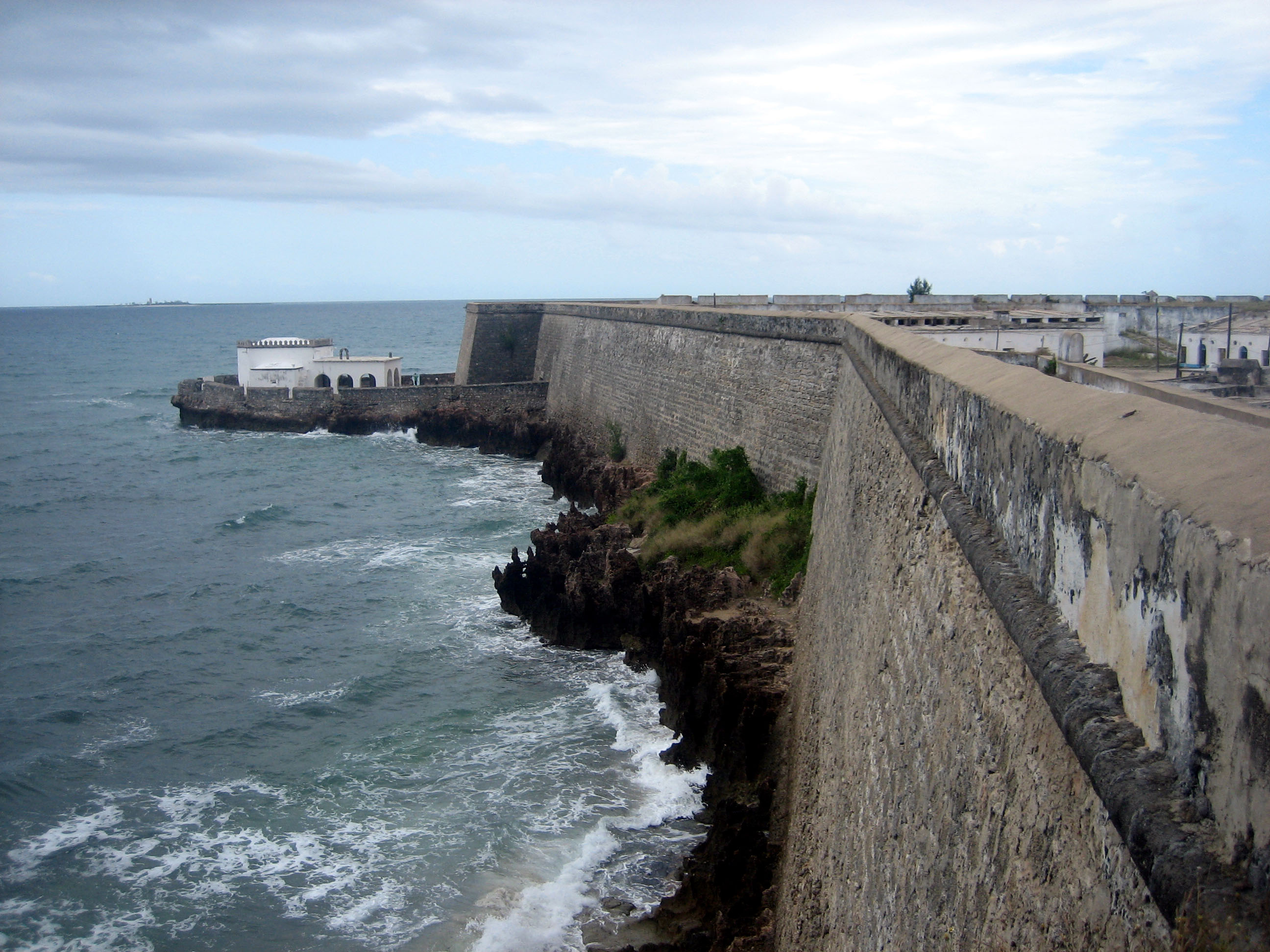 Fort of Sao Sebastiao